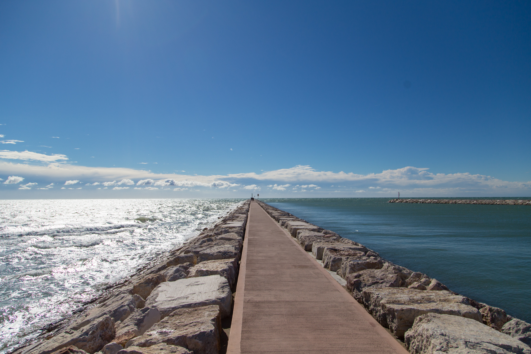 Via Timavo, 15, 30021 Caorle VE, Italy